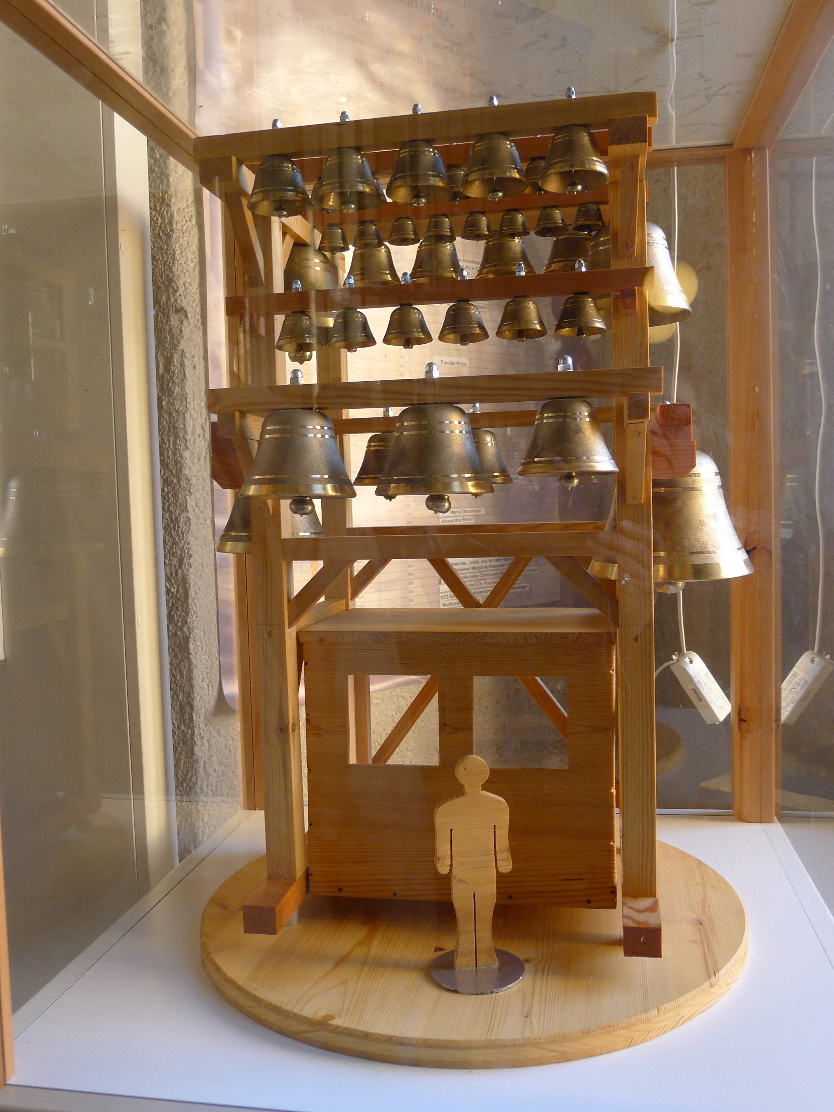 Model of the bells